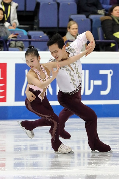 Ryom Tae-ok and Kim Ju-sik at the 2017 World Figure Skating Championships.